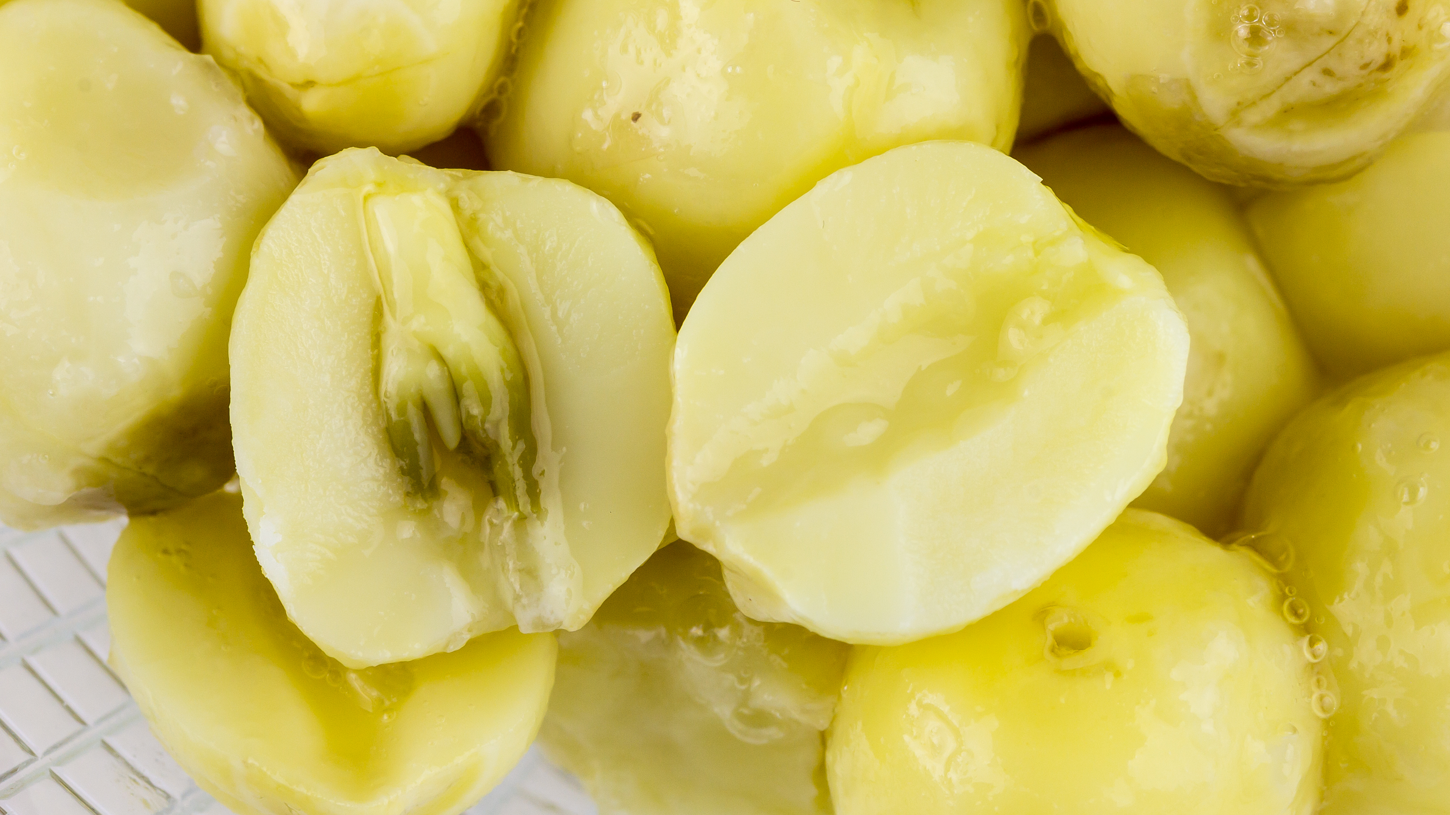 Fresh Lotus Seed